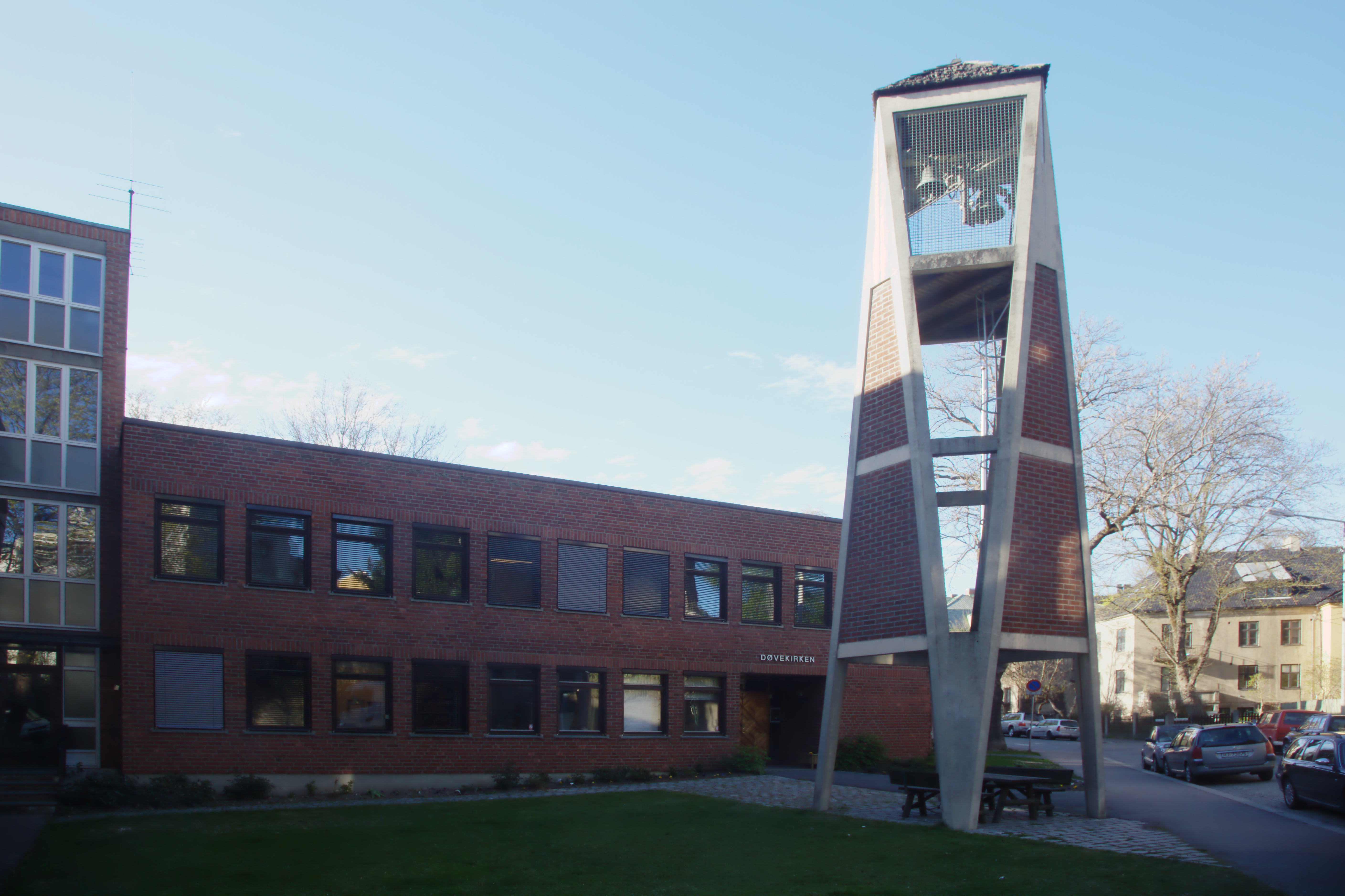 Døvekirken, a church for the deaf in Oslo